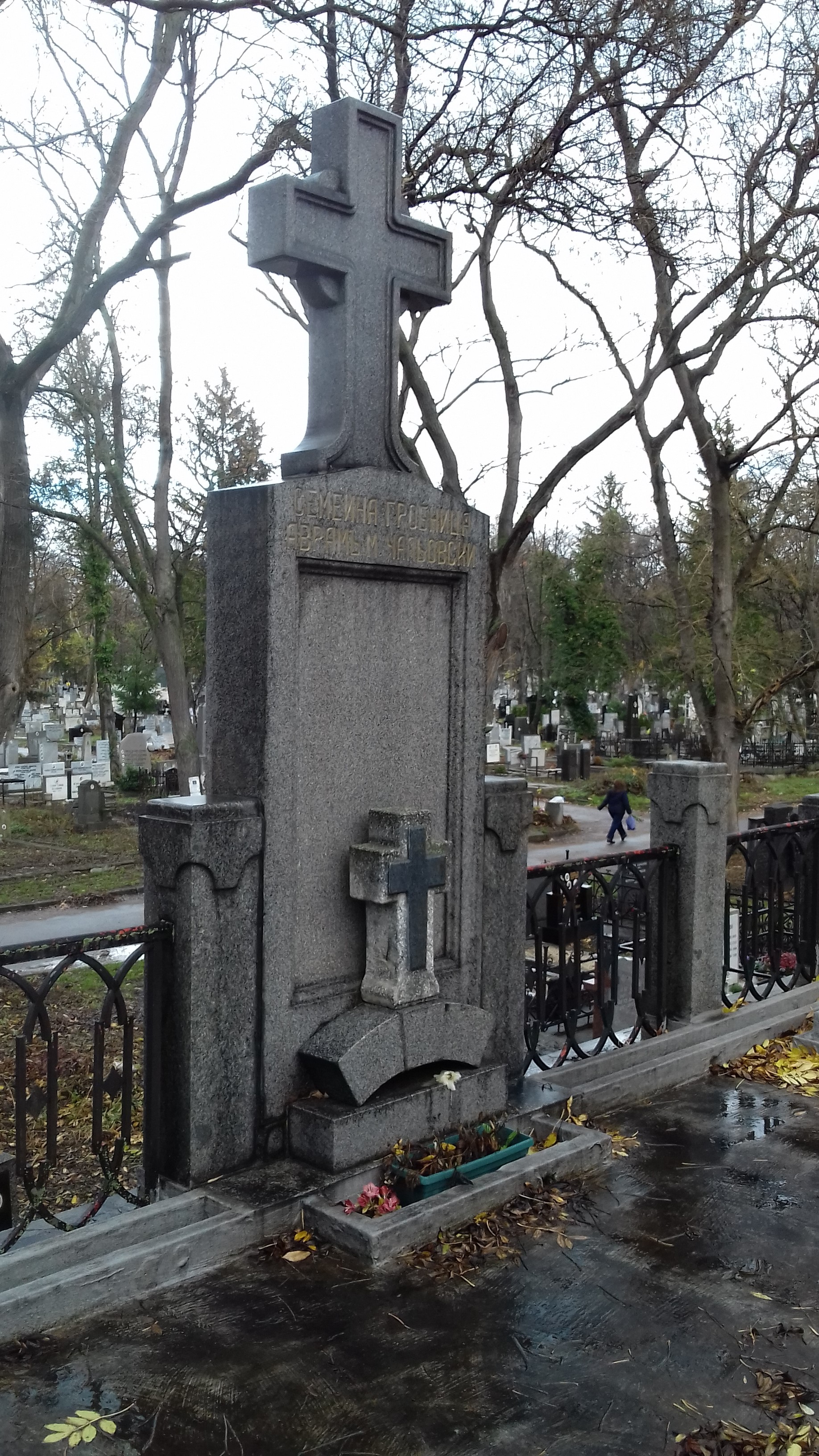 Avram Chalyovski Grave